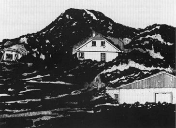 Houses buried by ash fall from the 1973 eruption of Eldfell, Iceland